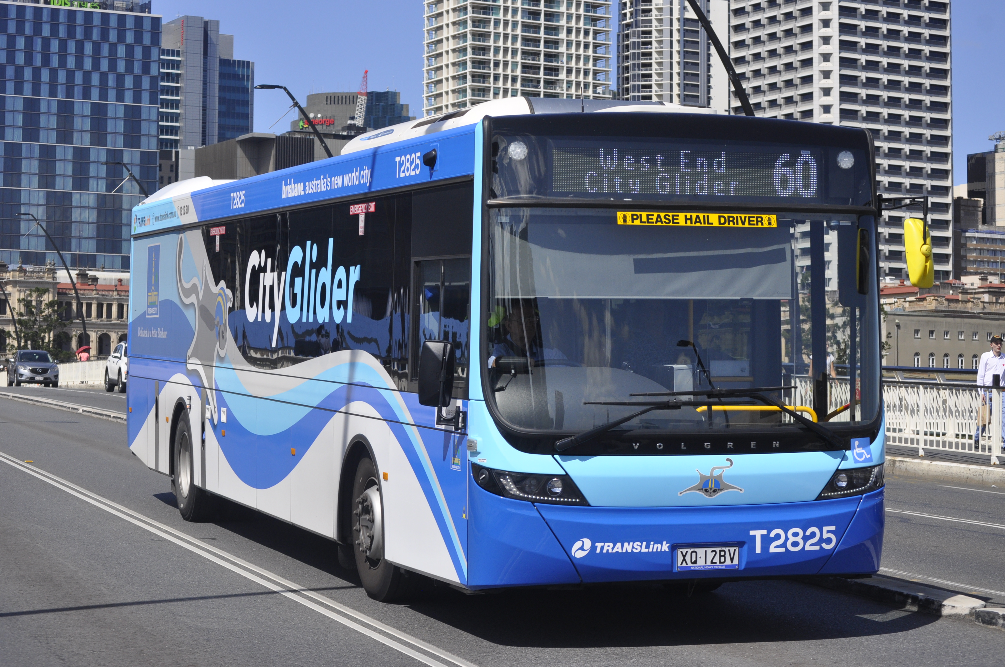 This is T2825 a few months before moving from Toowong Bus Depot to Eagle Farm Depot. This counts as Mark II of the Blue CityGlider fleet as it replaced the old MAN 18.310's running the route since it's first day of operation.